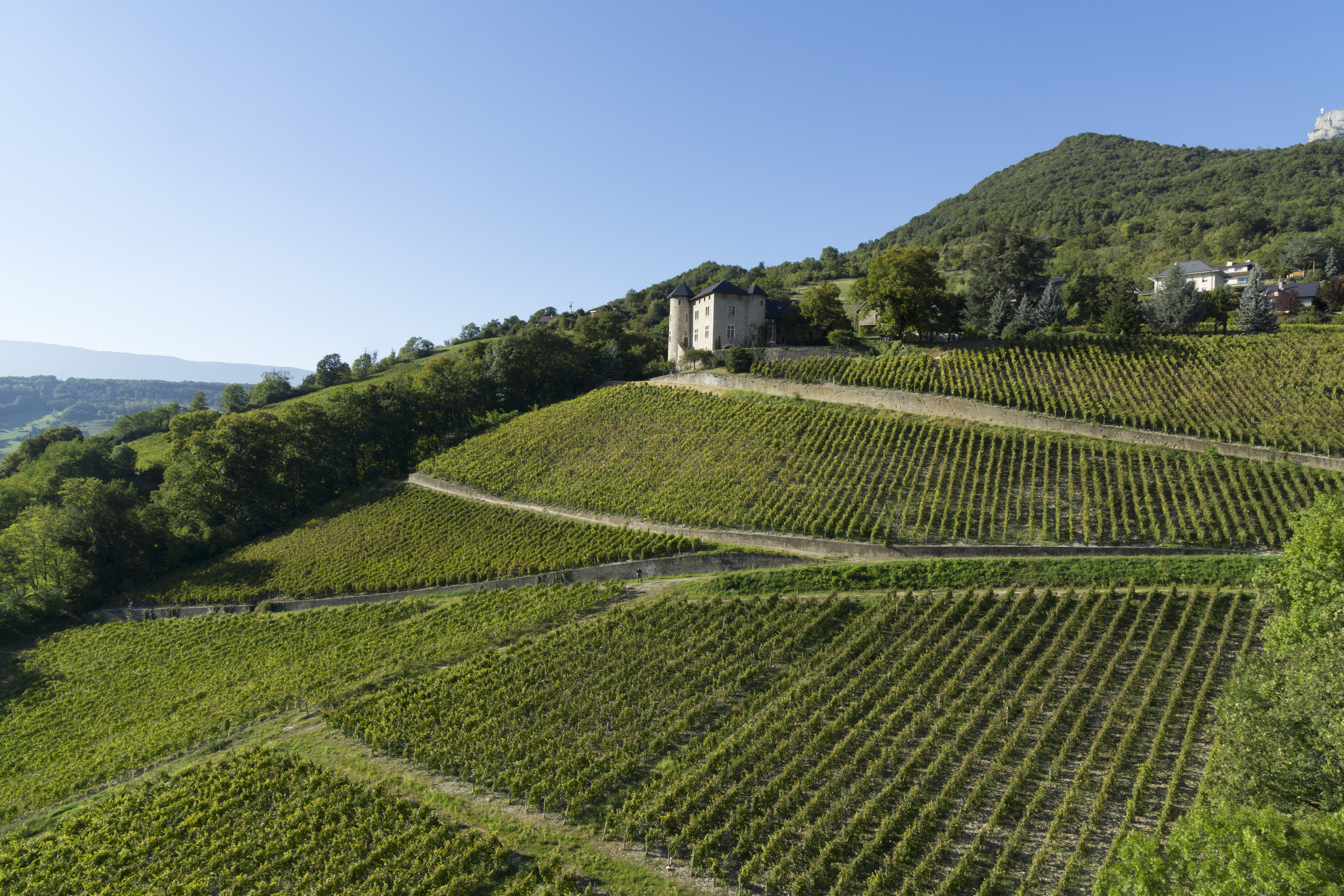 The Chateau de Monterminod and its unique vineyard